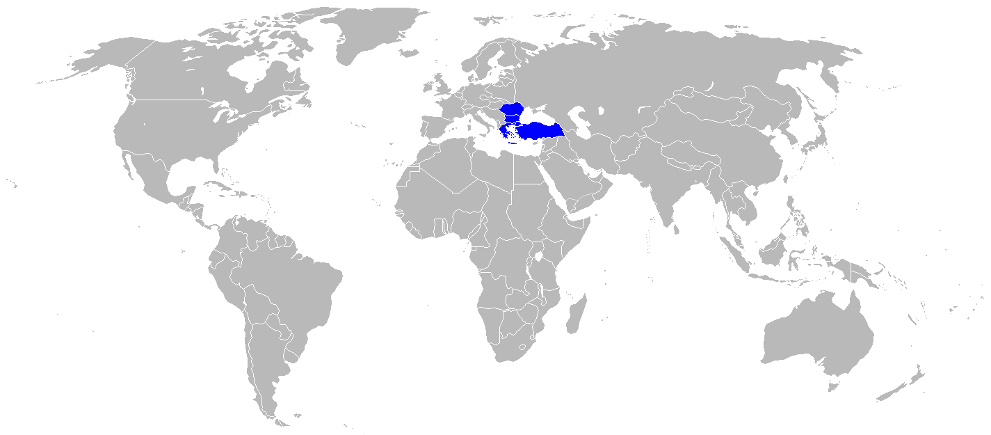 Operator countries of the PZL P.24 fighter aircraft. Self-made based on File:BlankMap-World 1937.png.